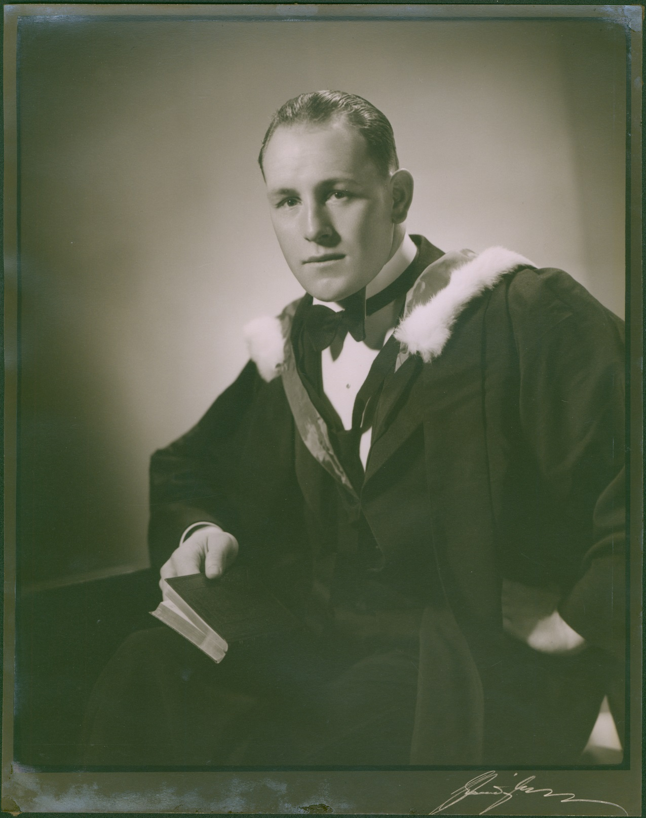 Raymond T Shannon in graduation robes c. 1940, the date of his graduation from Victoria University College, New Zealand, with a BSc in Electrical Engineering